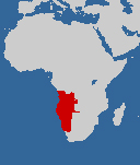 Peachfaced lovebird distribution